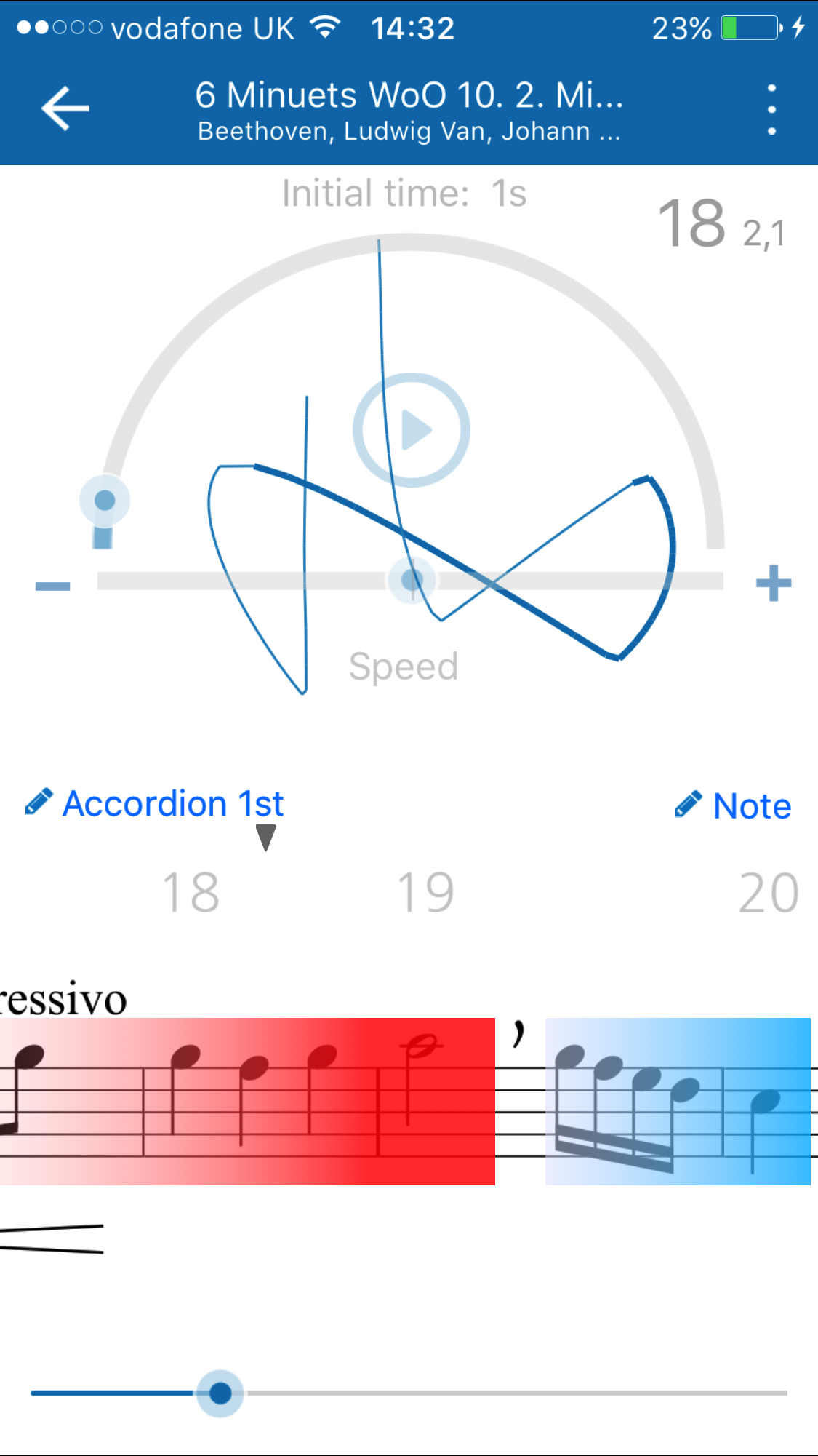 the photo shows the movement path, and the colored score